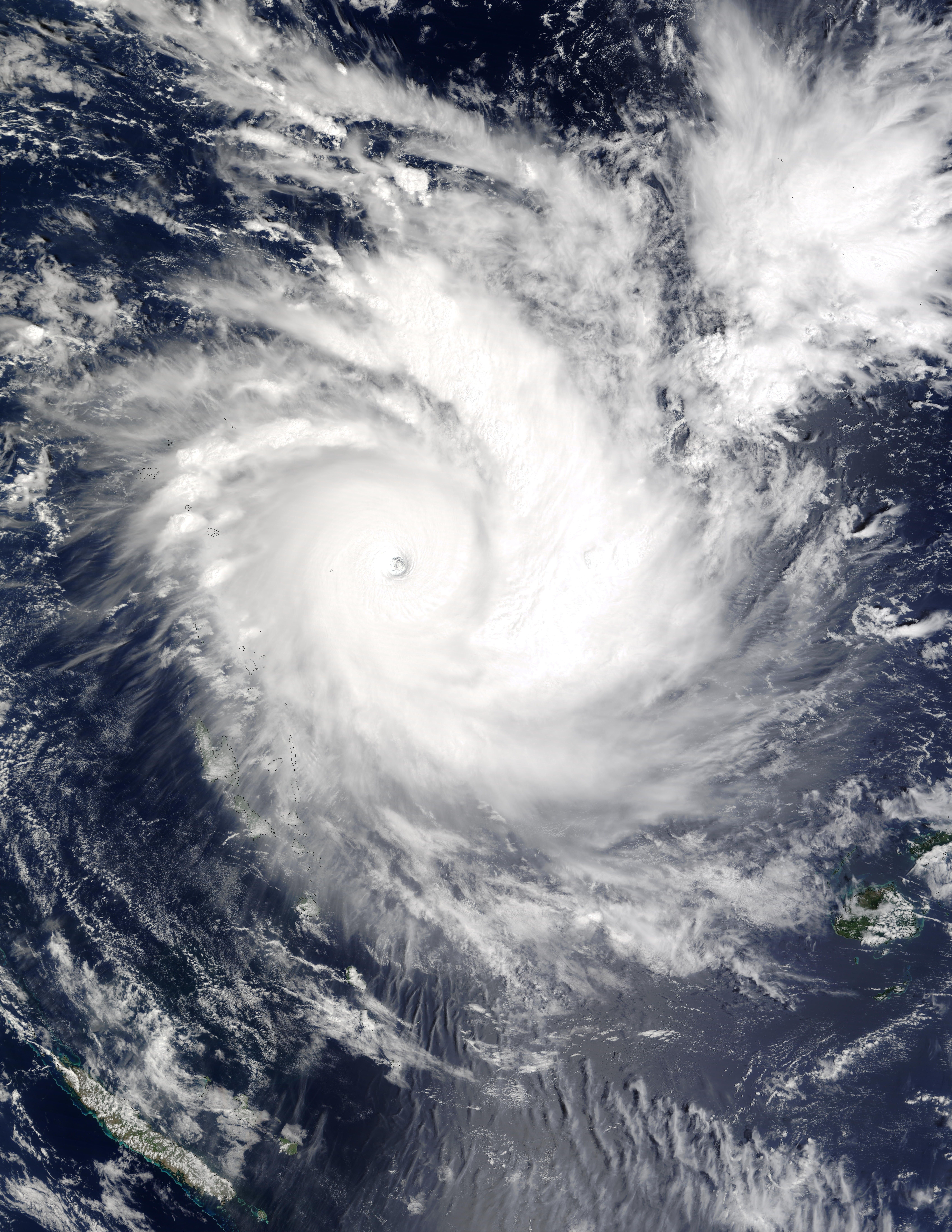 In this Moderate Resolution Imaging Spectroradiometer (MODIS) image from December 27, Tropical Cyclone Zoe was located near 11.8S and 170.2E. The storm was moving west-southwest at about 7 knots but was expected to gradually turn to the southwest. Maximum 10-minute average winds near the center are estimated at 125 knots and are expected to increase to 135 knots in the next 12 hours.